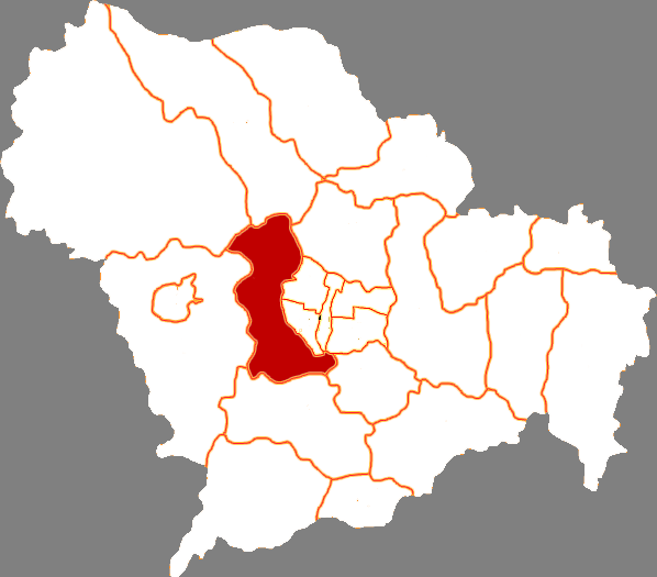 Location of Luquan City in Shijiazhuang City, China